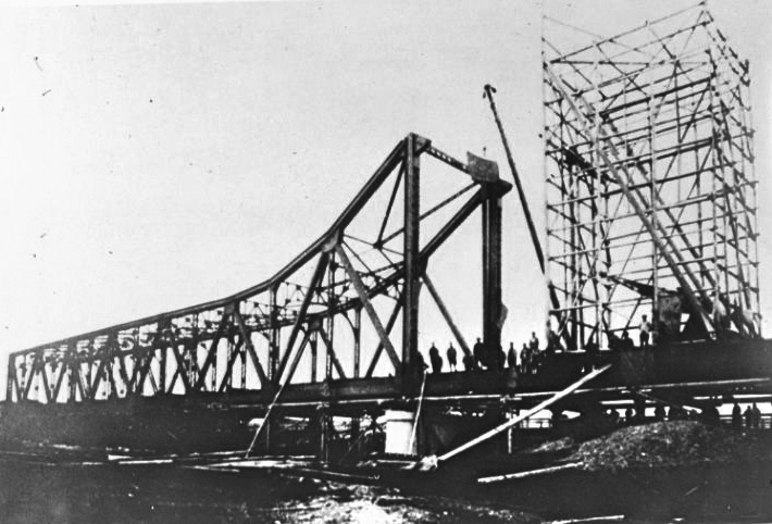 Chōsei Bridge under construction in around 1935.